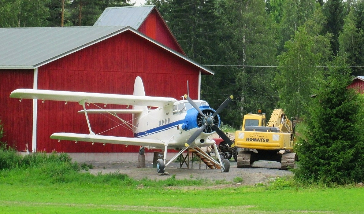 Modern farmyard with tractors and plane (Southern Finland)